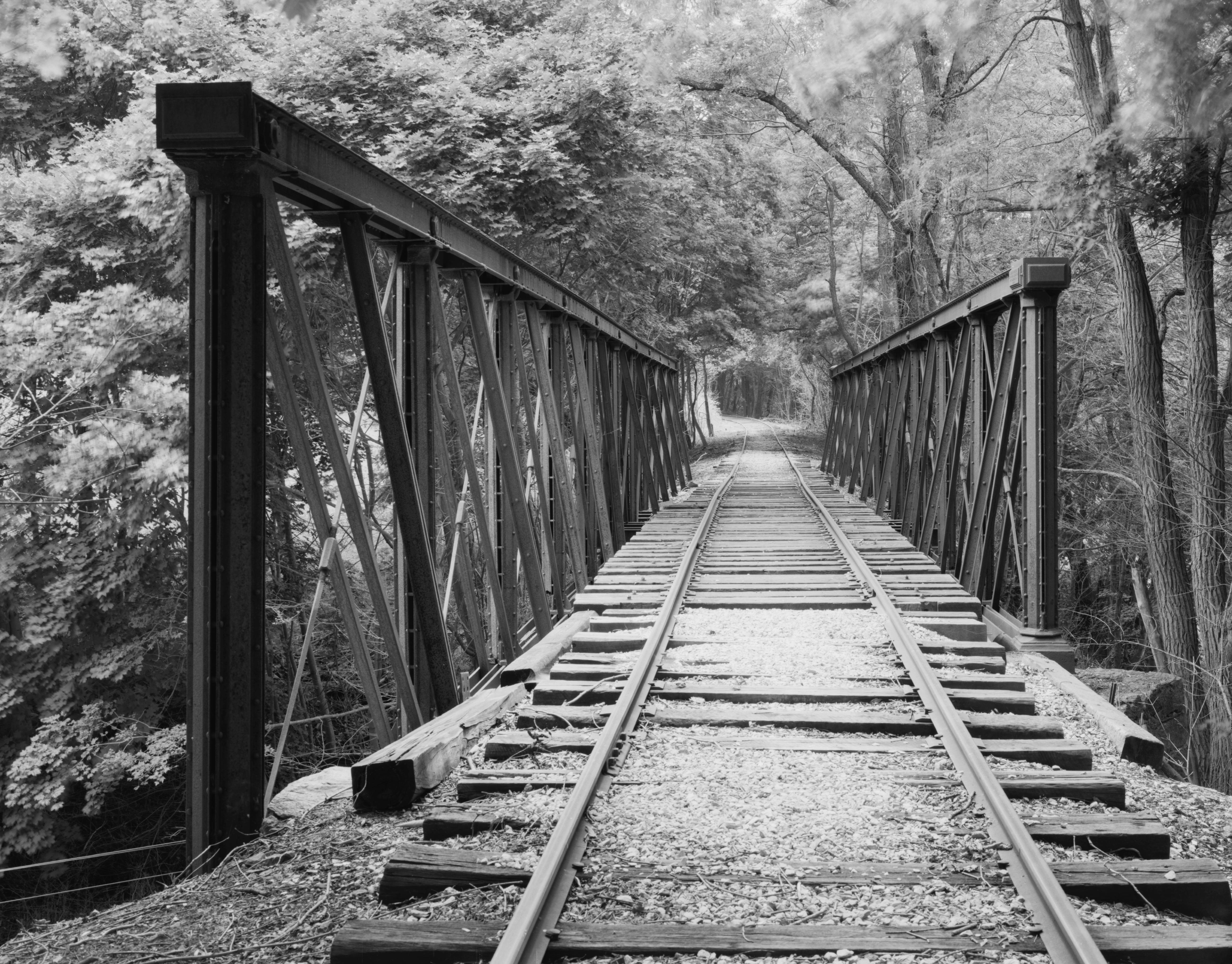 Looking southward from the northern end of the Valley Road Bridge, Stewartstown Railroad, which carries a line of the Stewartstown Railroad over Valley Road west of Stewartstown in Hopewell Township, York County, Pennsylvania, United States. Built in 1885, the Pratt truss bridge is listed on the National Register of Historic Places.